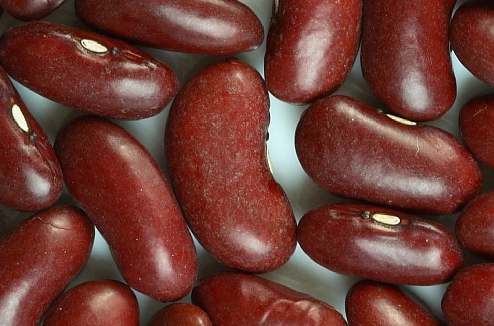 Illustrating reniform seeds for use in wiki. View cropped from File:Kidney beans.jpg